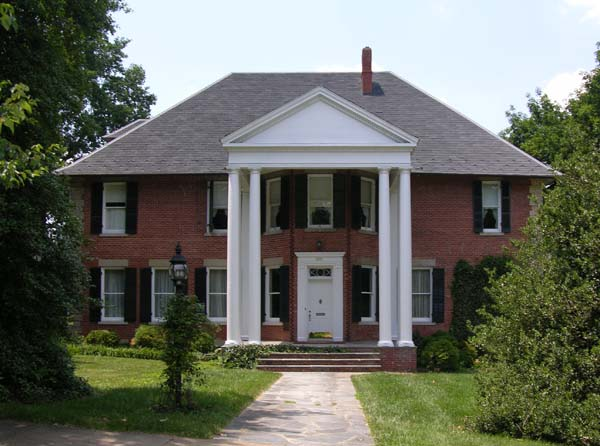 Boxley-Sprinkle House listed on the National Register of Historic Places in South Roanoke, Roanoke, Virginia, USA